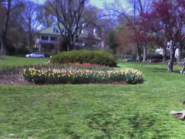 Sherwood Gardens, Guildford, Maryland